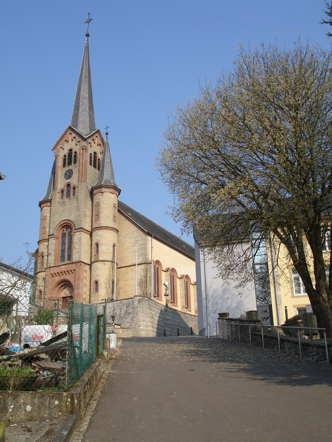 The church of Eischen, Luxembourg